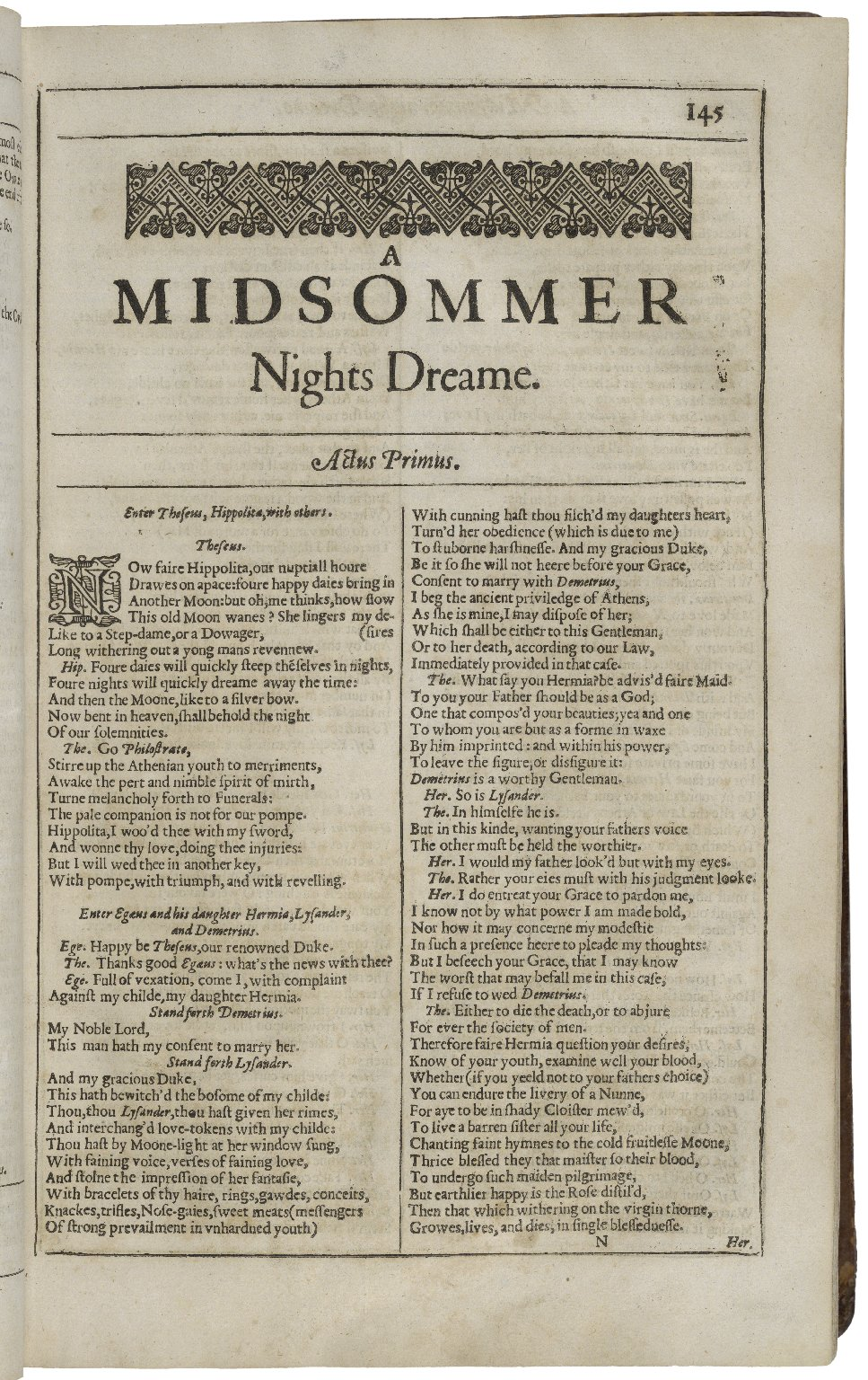 The title page of A Midsummer Night's Dream, printed in the Second Folio of 1632